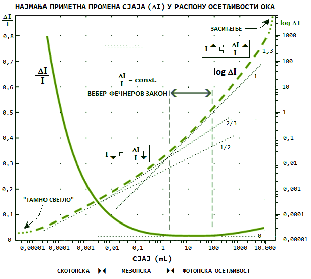 ВЕБЕР-ФЕЧНЕРОВ ЗАКОН: СЛАГАЊЕ СА ЕКСПЕРИМЕНТАЛНИМ ПОДАЦИМА